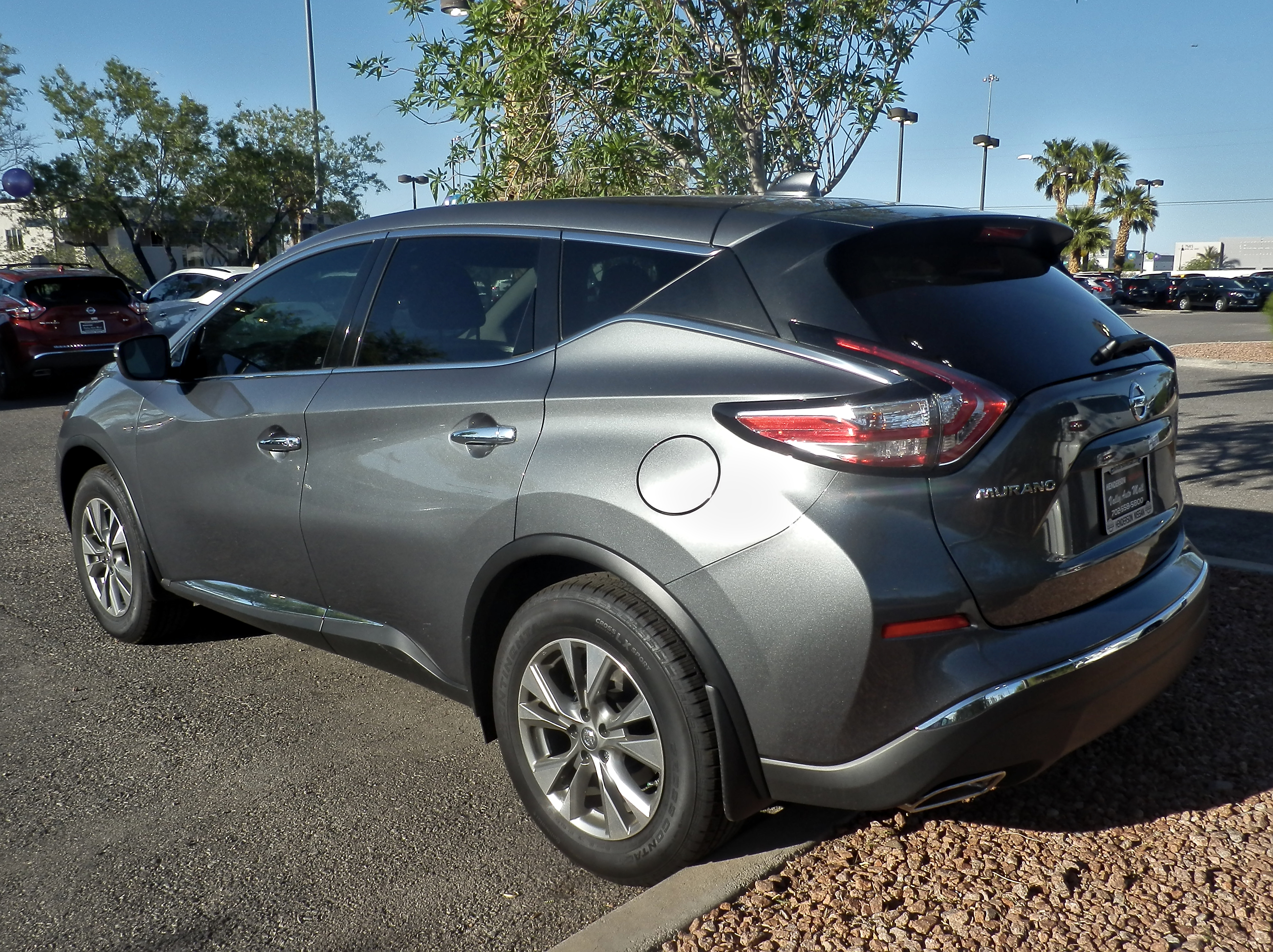 Nissan Murano in Las Vegas